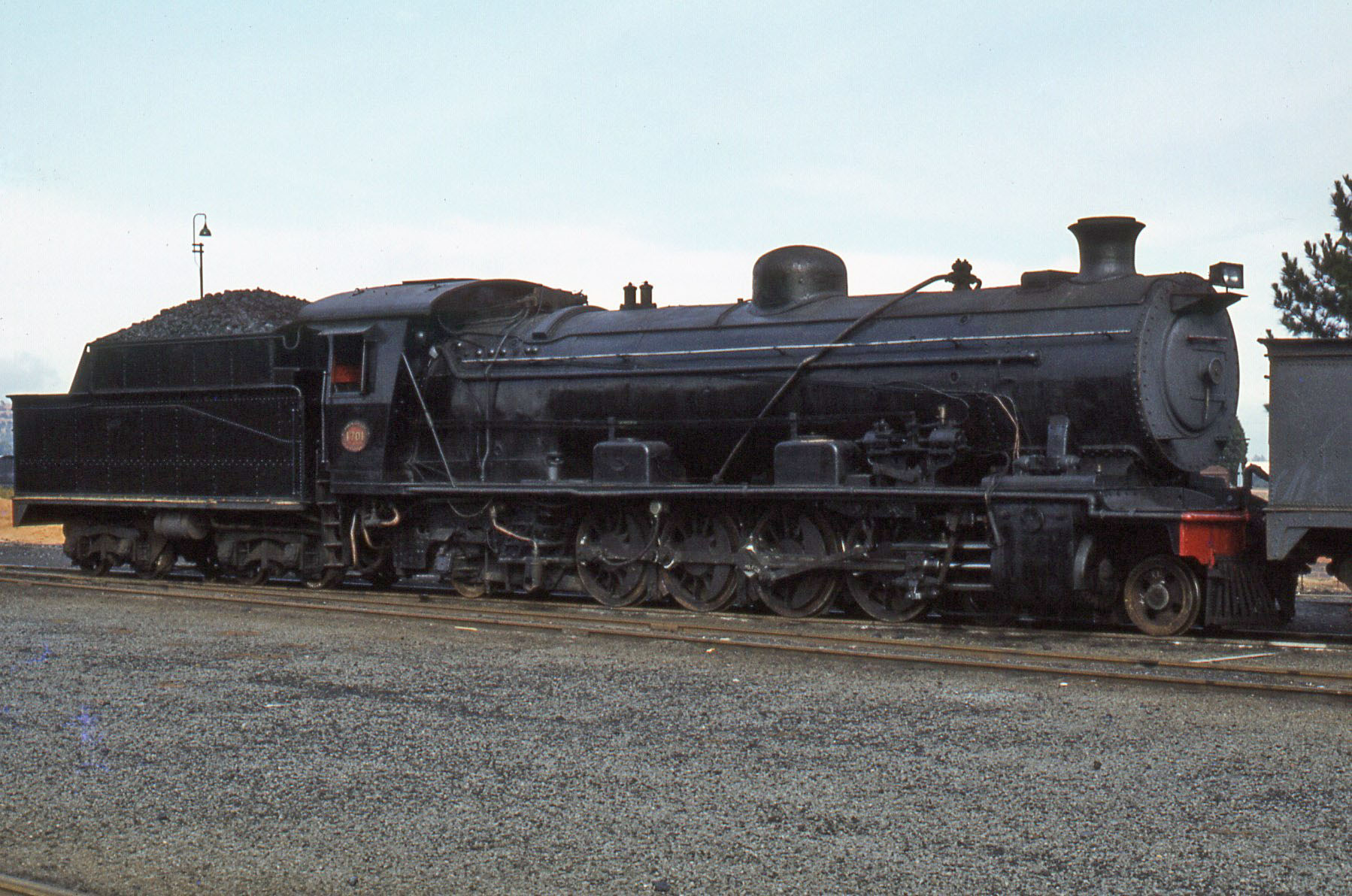 SAR Class 14R 1701 (4-8-2) Location: Millsite (Krugersdorp)